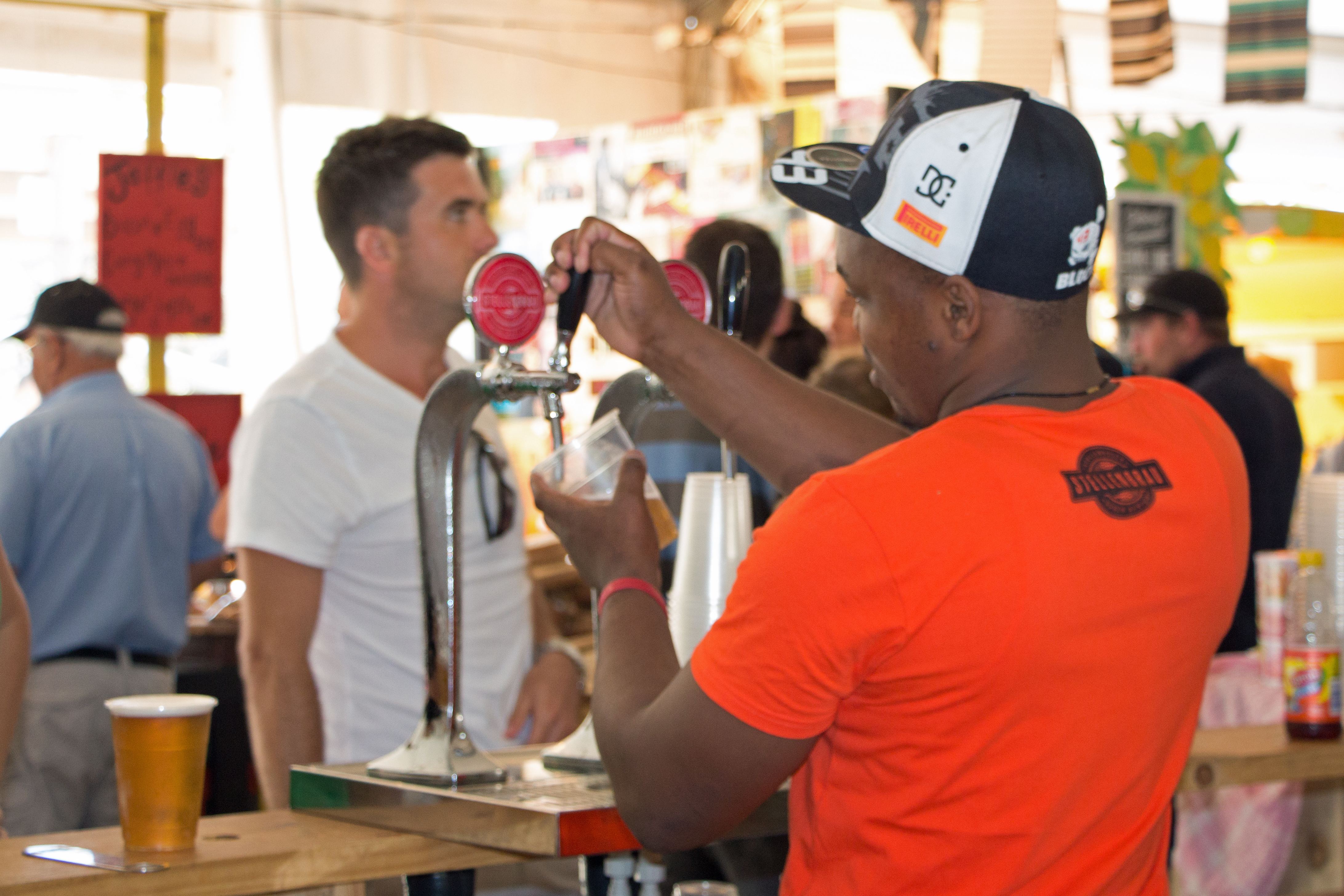 Bier Hier craft beer on tap stall, Root44 Market, Stellenbosch, South Africa